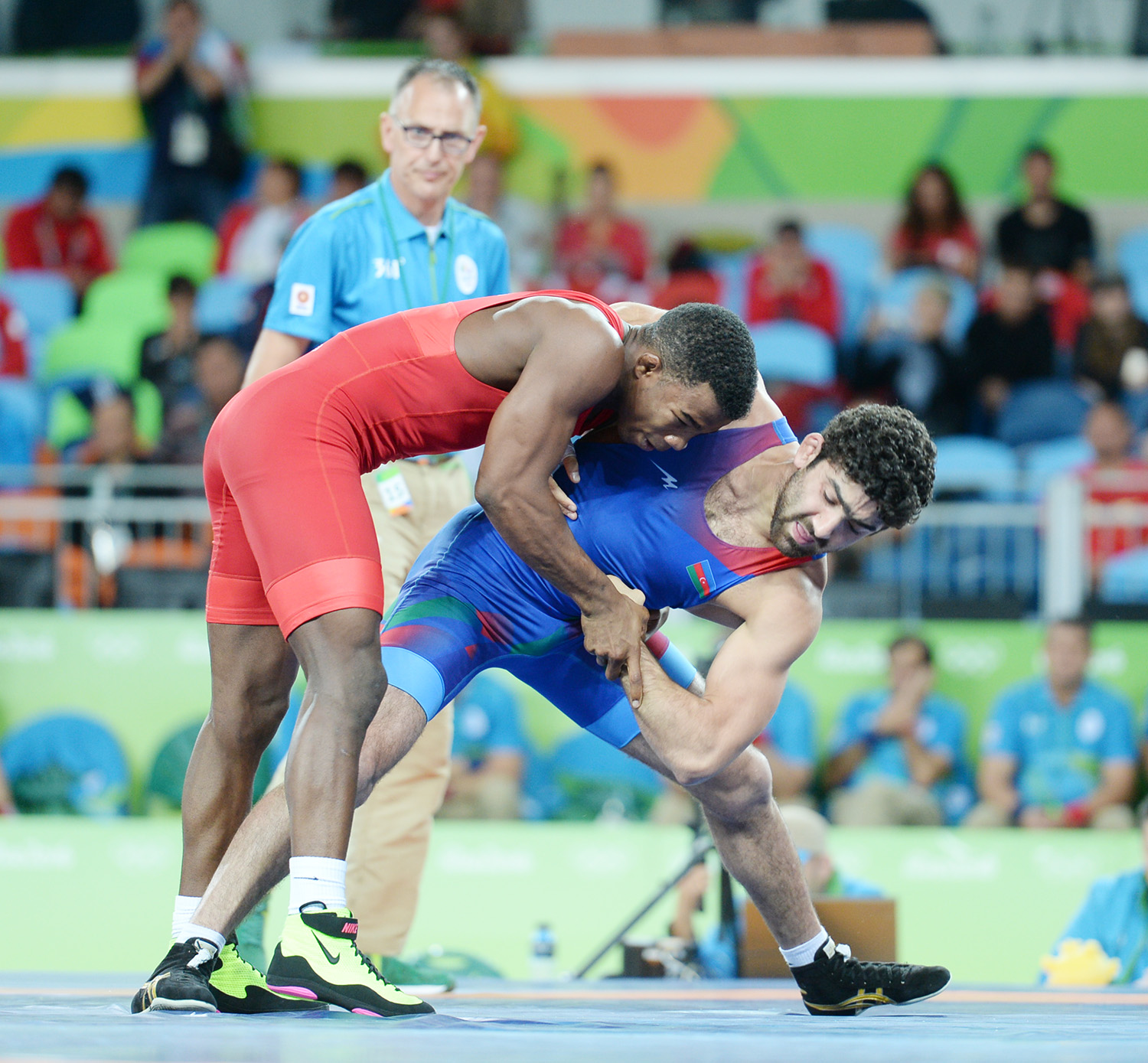 Wrestling at the 2016 Summer Olympics, Asgarov vs Chamizo